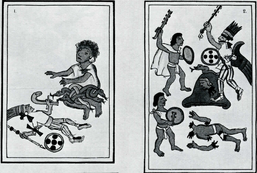 This image from the Florentine Codex depicts the birth of Aztec deity Huitzilopochtli and the defeat of his sister, Coyolxauqui.